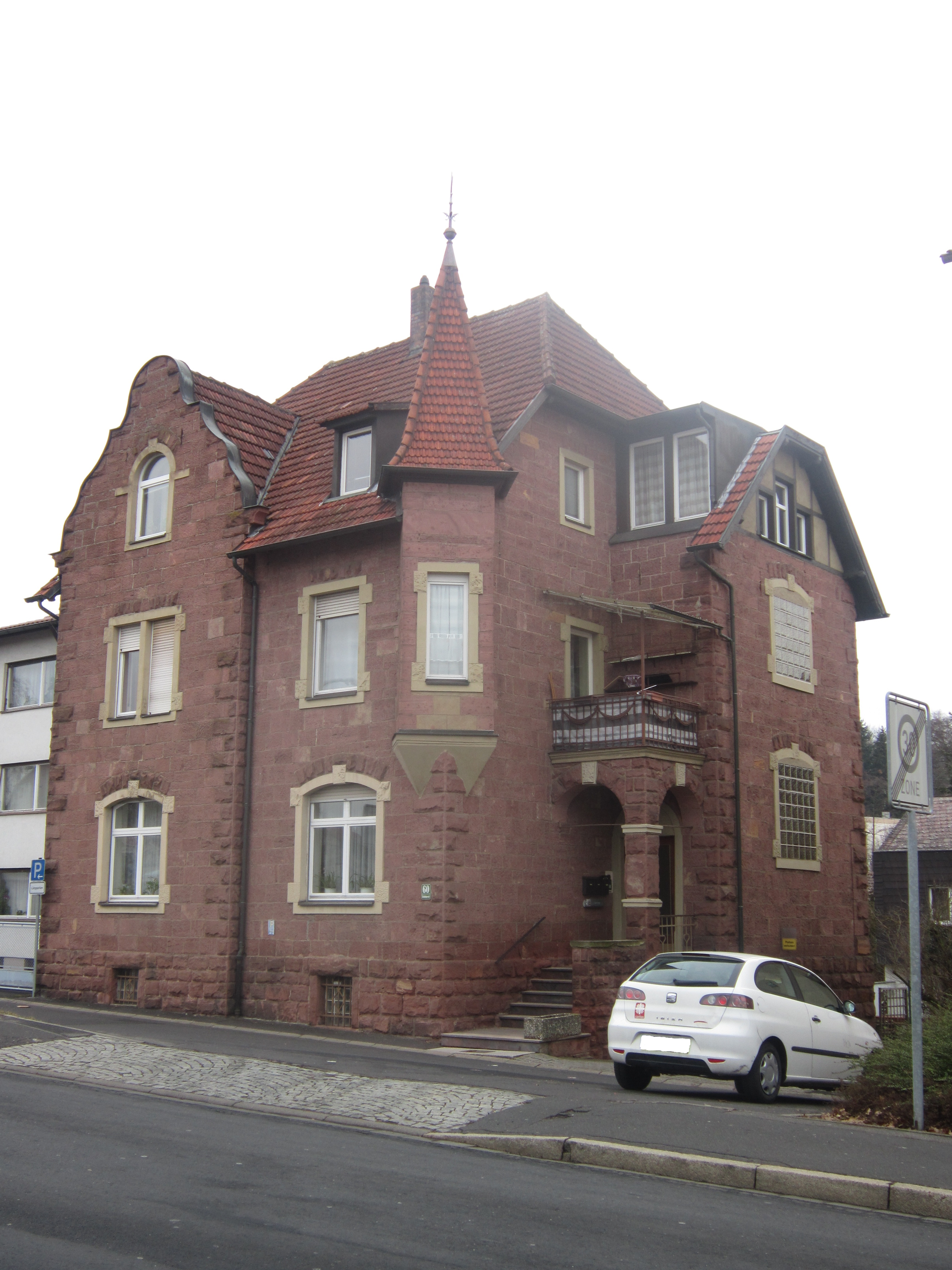 Building in the German spa town of Bad Kissingen in Lower Franconia (Bavaria) (Address: Schönbornstraße 60).